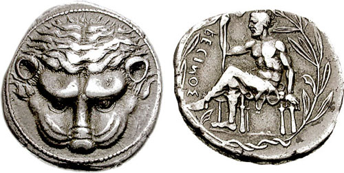 BRUTTIUM, Rhegion. Circa 435-425 BC. AR Tetradrachm (17.14 gm, 2h). Facing lion's head / Iokastos seated left, holding staff; all within olive wreath.